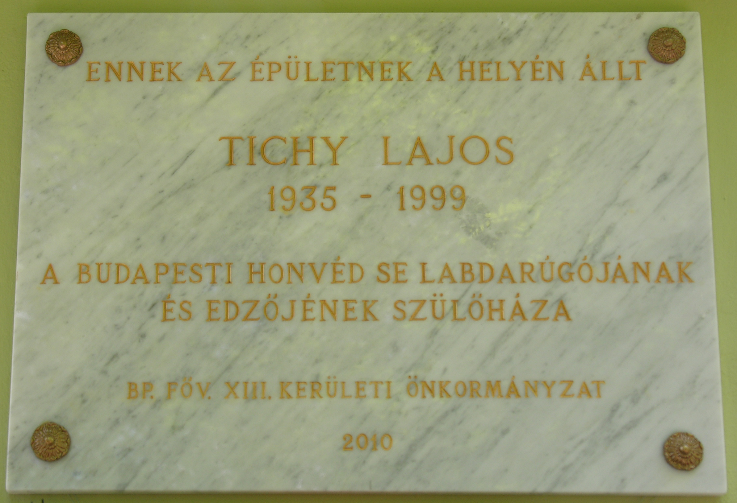 Commemorative plaque of Lajos Tichy in Budapest District XIII, Jász Street No 102